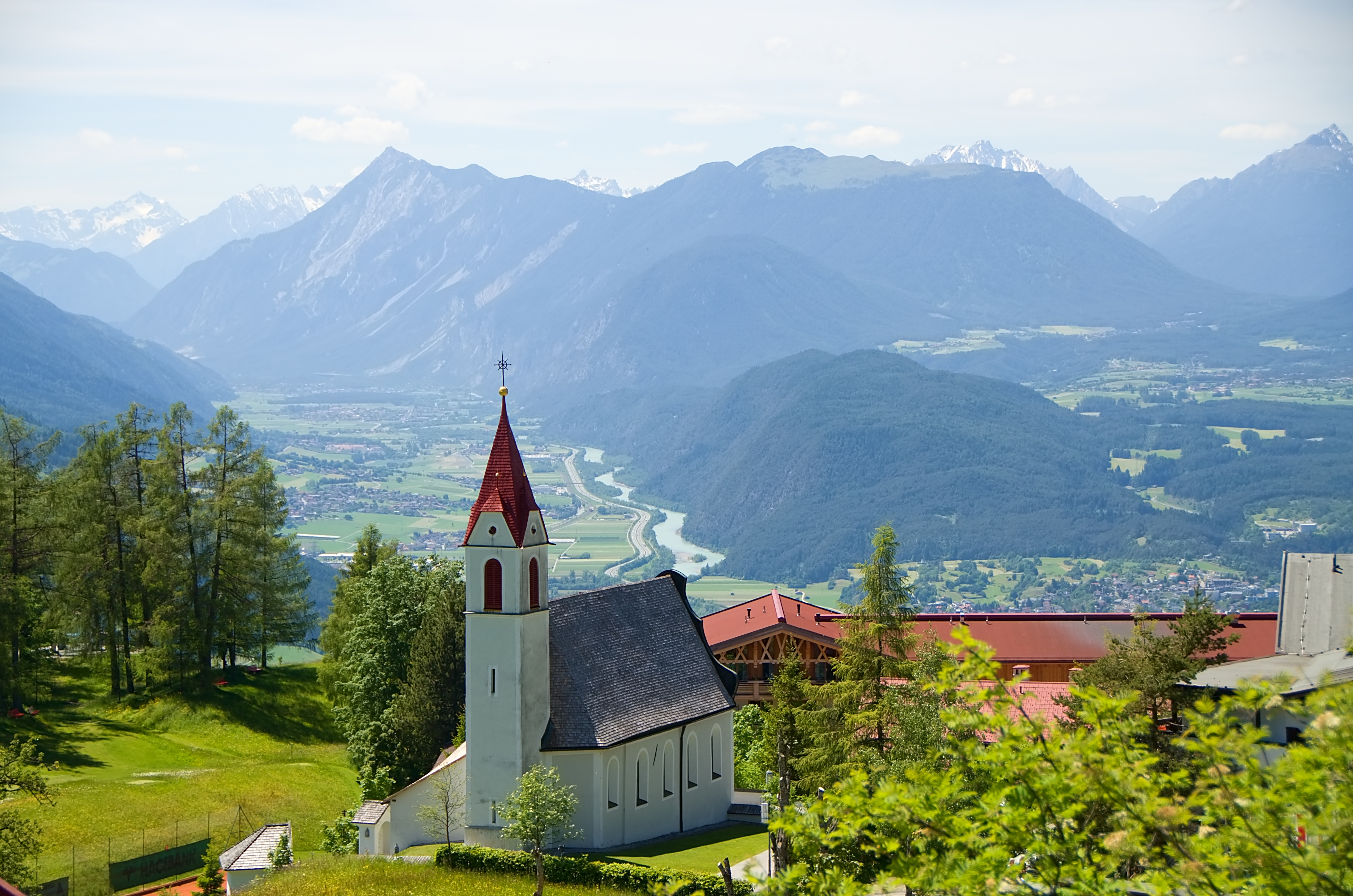 Church in Telfs - Moeser, Tyrol, Austria.